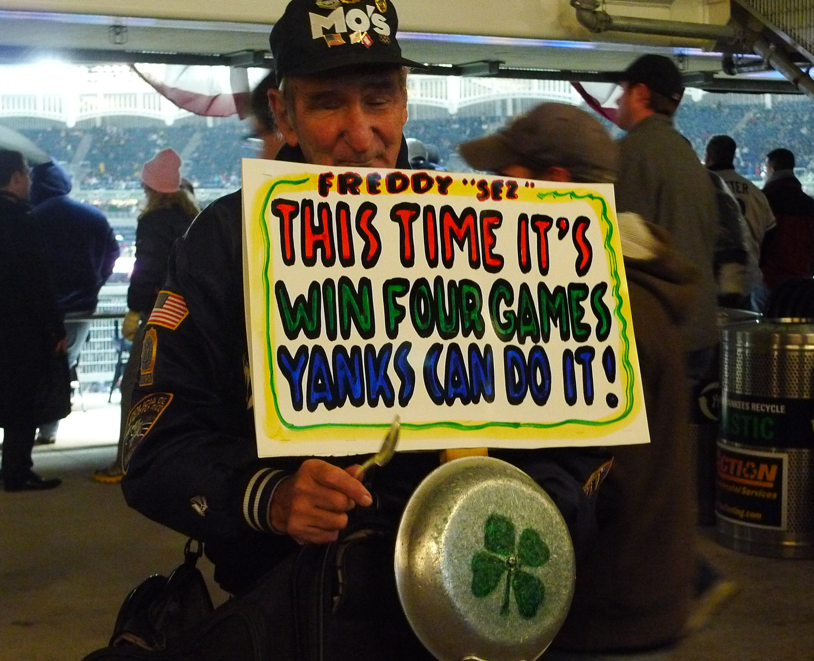 Famous Yankees fan Freddy Schuman, AKA Freddy Sez, at Yankee Stadium at Game 1 of the 2009 ALCS.